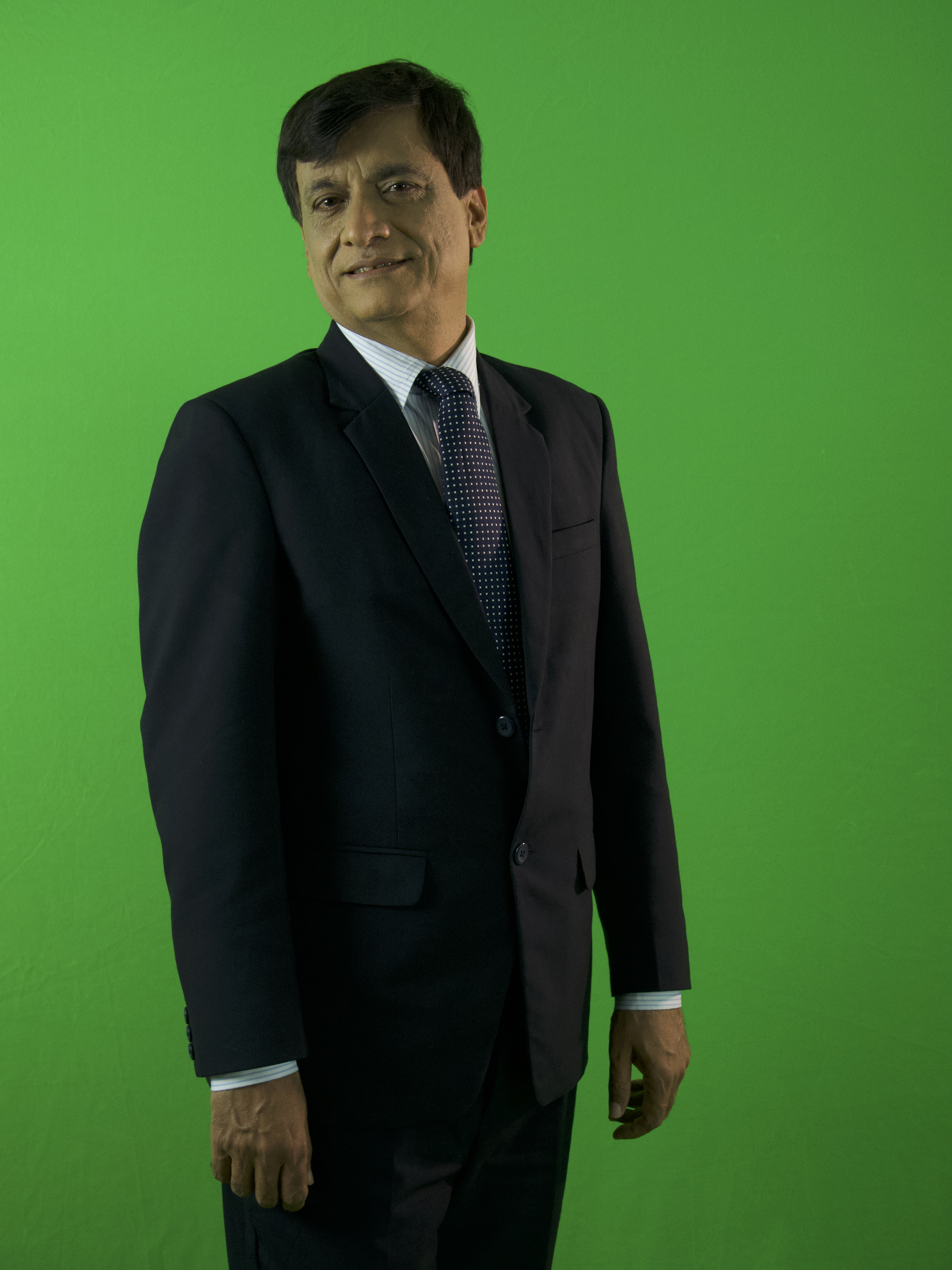 Lal Chand picture